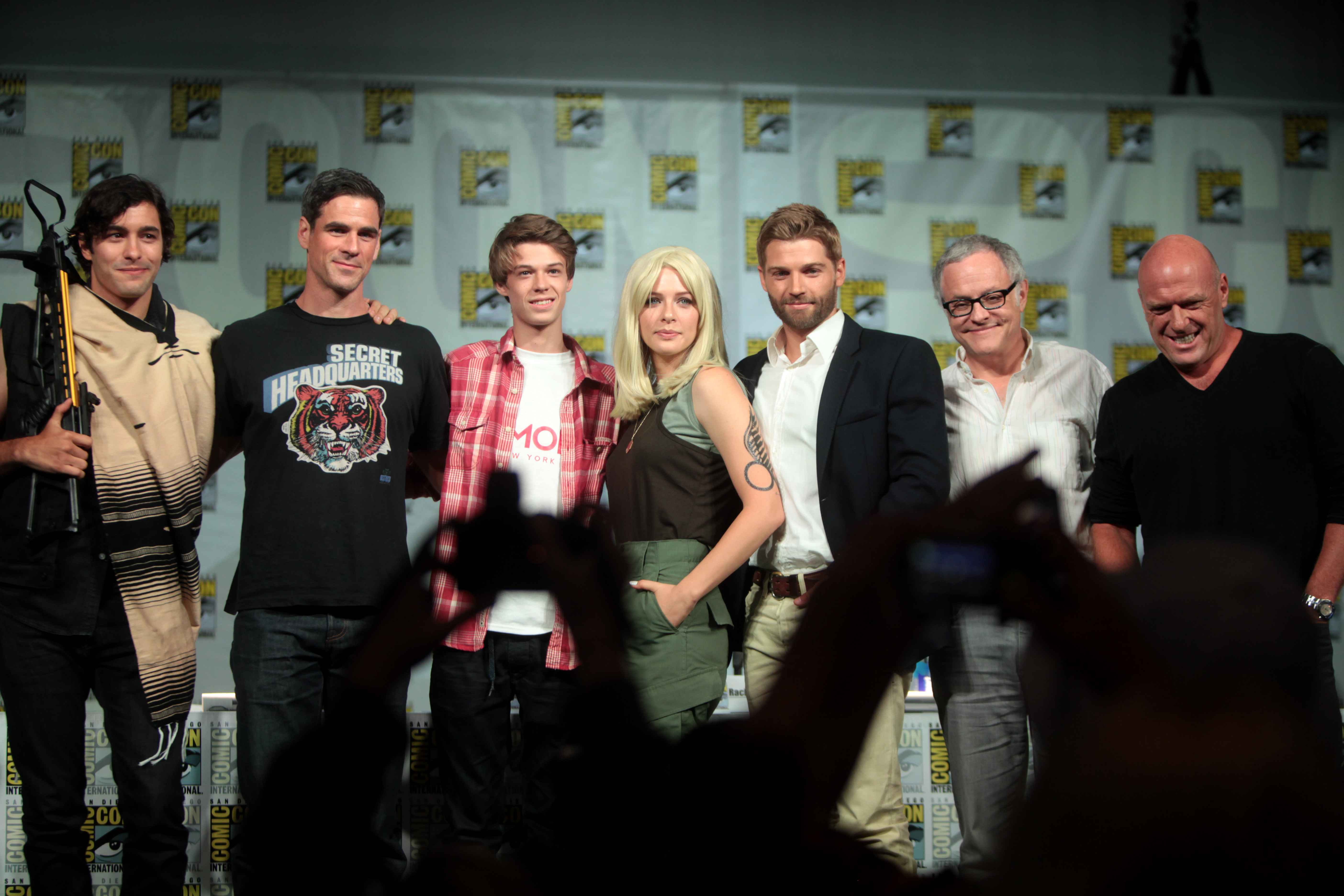 Alexander Koch, Eddie Cahill, Colin Ford, Rachelle Lefevre, Mike Vogel, Neal Baer and Dean Norris speaking at the 2014 San Diego Comic Con International, for "Under the Dome", at the San Diego Convention Center in San Diego, California.